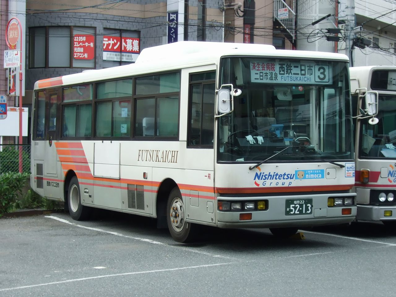 Nissan Diesel Space Runner RM with Nishinippon Shatai Kogyo body for Nishitetsu Bus Futsukaichi Haru Depot transit bus (code: 0930), with license plate Fukuoka 22 KA 5213, at Nishitetsu Futsukaichi Station Bus Centre in Chikushino City, Fukuoka, Japan